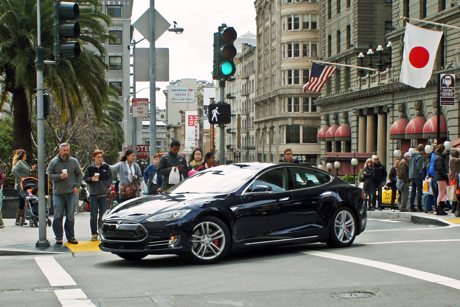 Tesla Model S electric car at Union Square, San Francisco